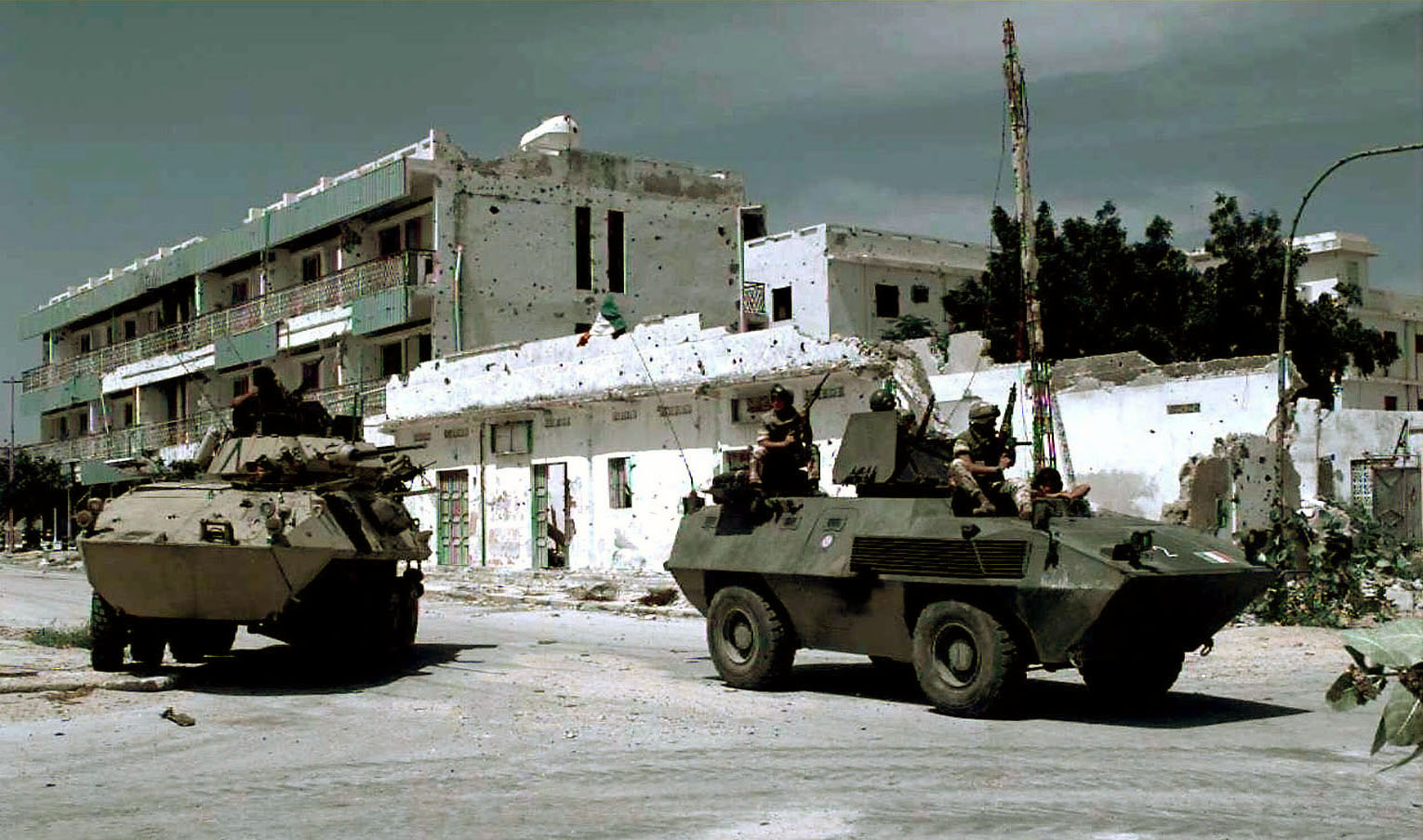 A US Marine Light Armored Reconnaissance Vehicle 25 from the 1st Light Armor Infantry Battalion, C Co 3rd Plt (left) and Italian Soldiers in a Fiat-OTO Melara Type 6614 Armored Personnel Carrier (right) guard an intersection on the "Green Line" in Mogadishu. The line divides the northern and southern part of the city and warring clans. This mission is in direct support of Operation Restore Hope.